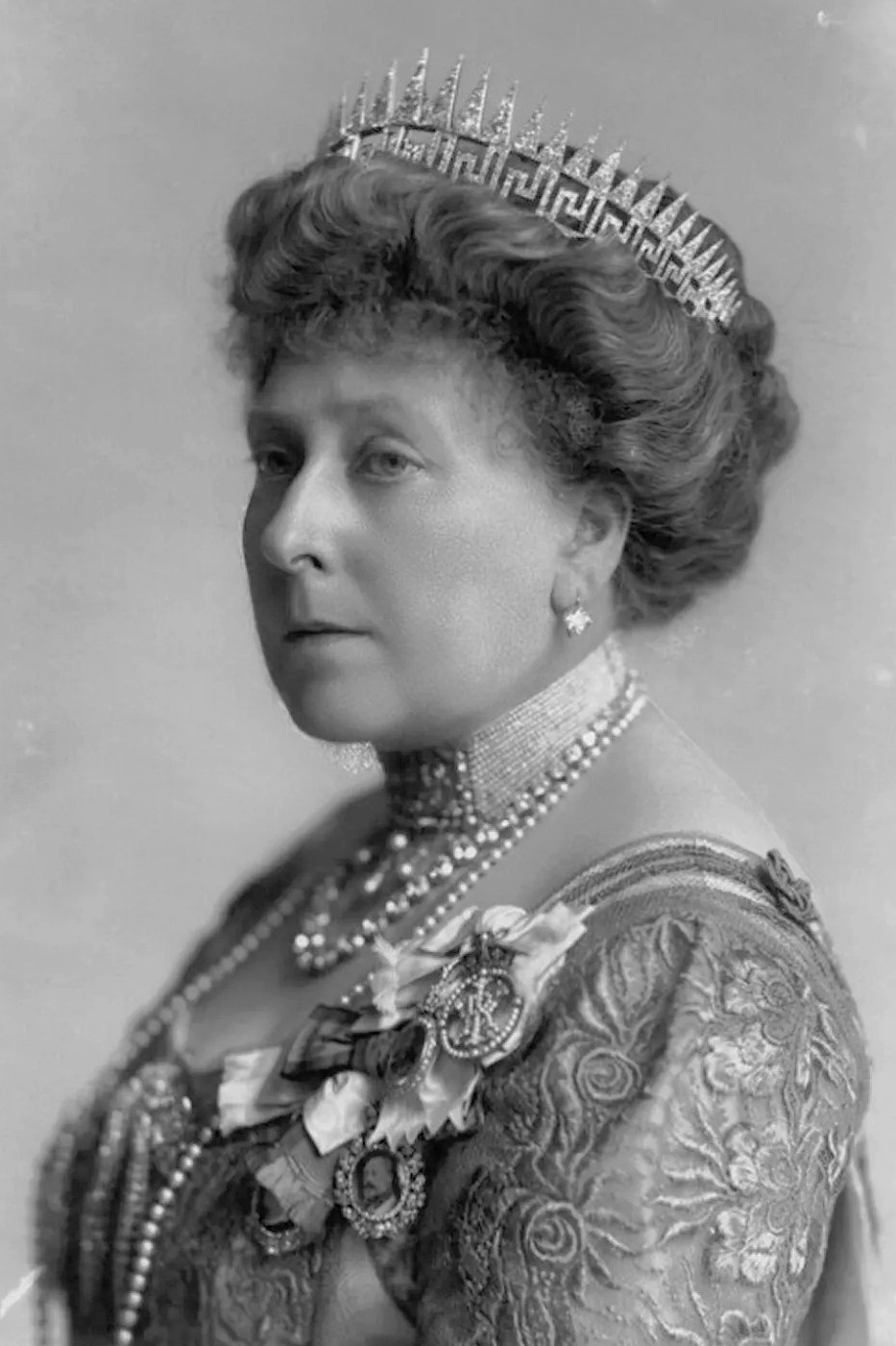 Photo of Princess Beatrice of the United Kindgom